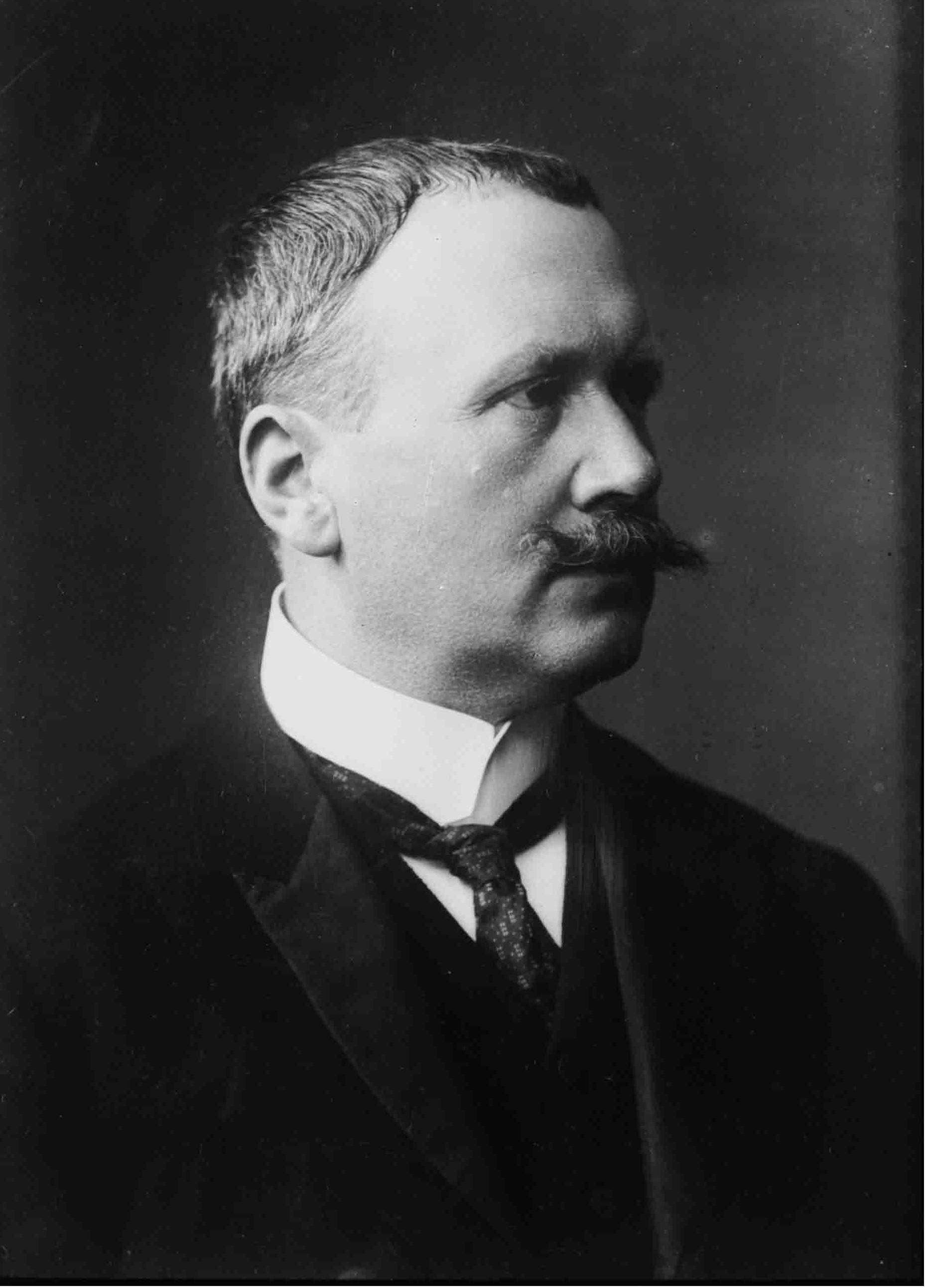 Theodor Seitz was a german politican